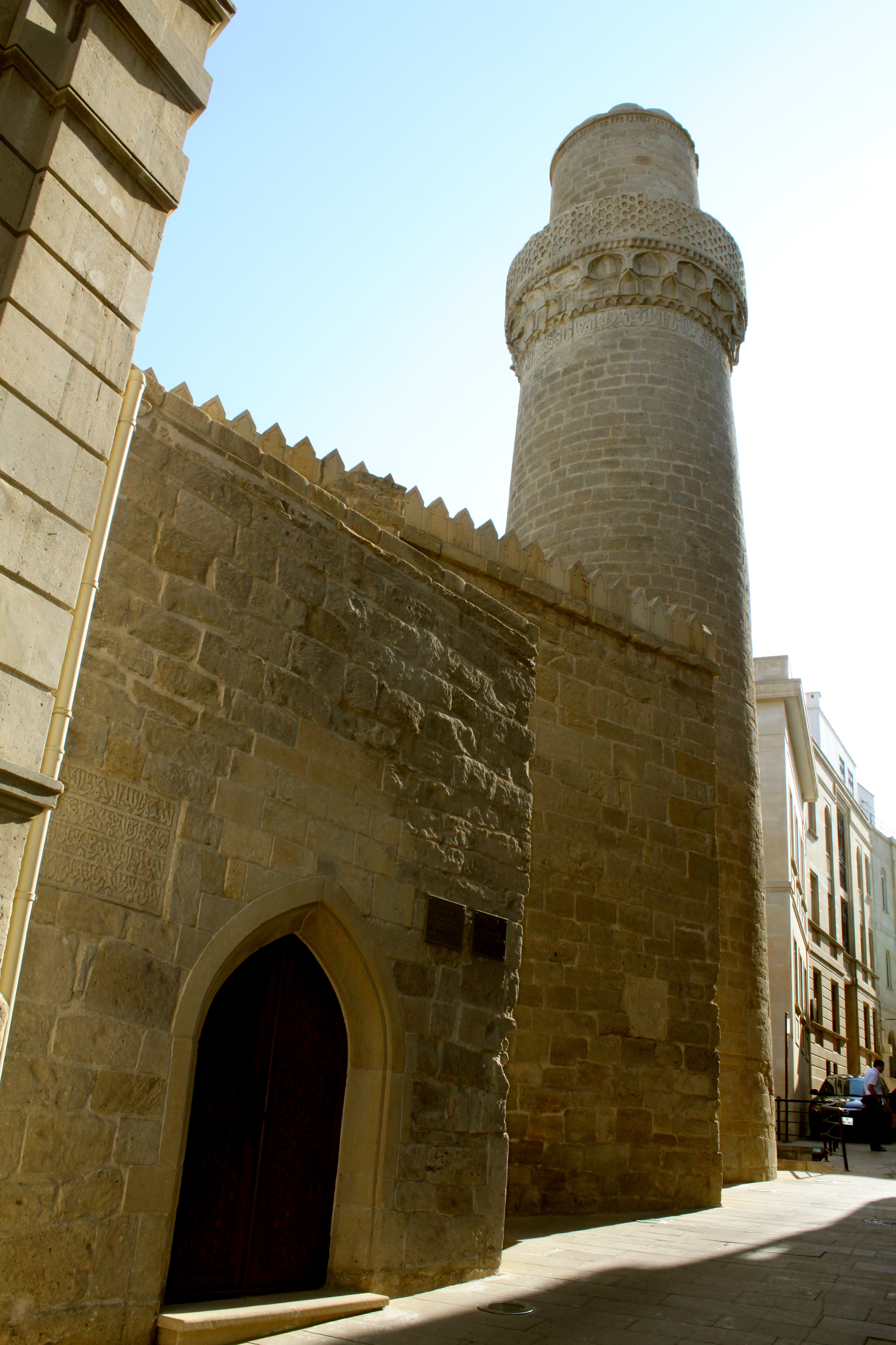 Muhammed mosque